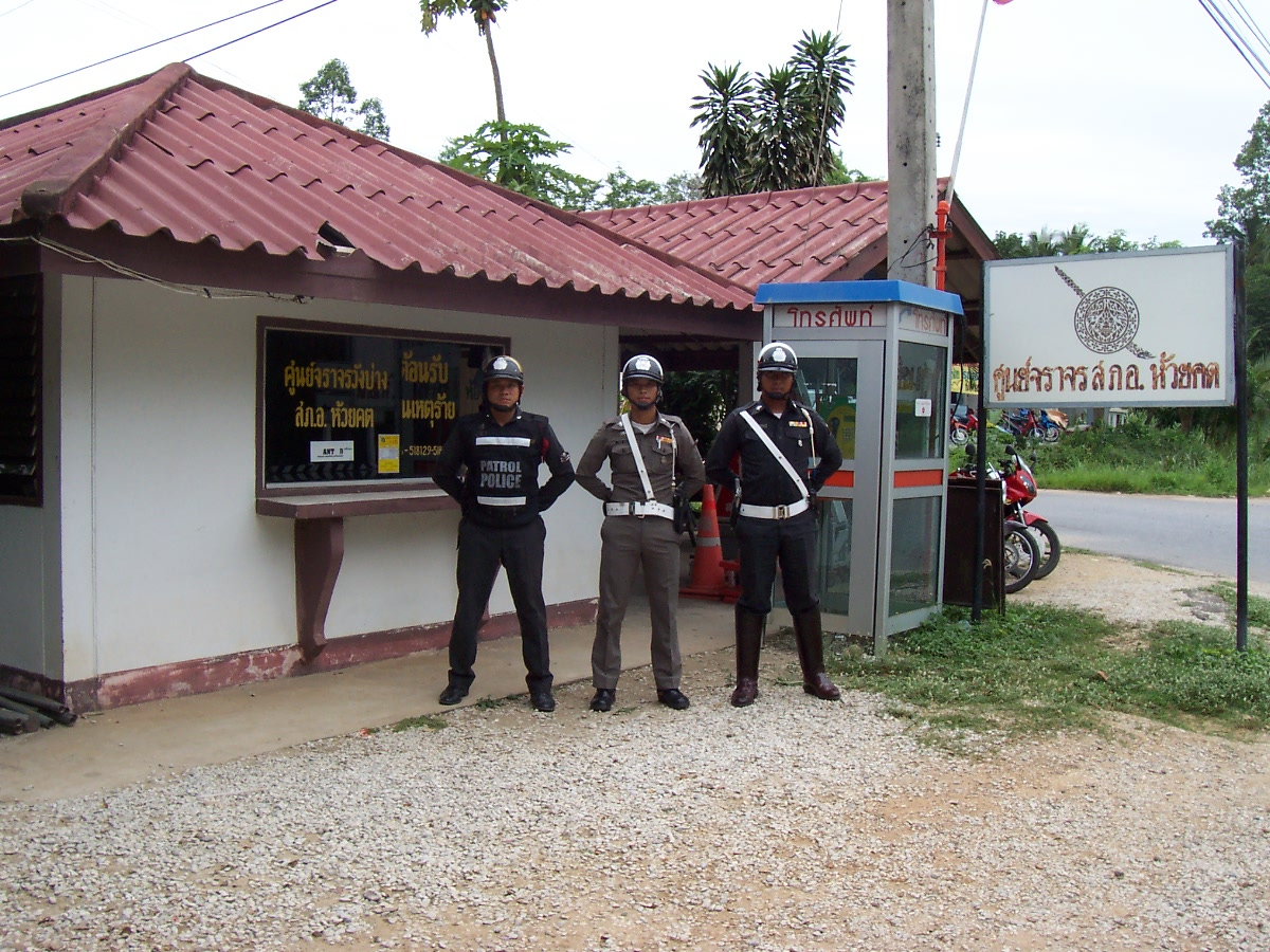 Thai Police officers - Huaikhot, Uthaithani, Thailand